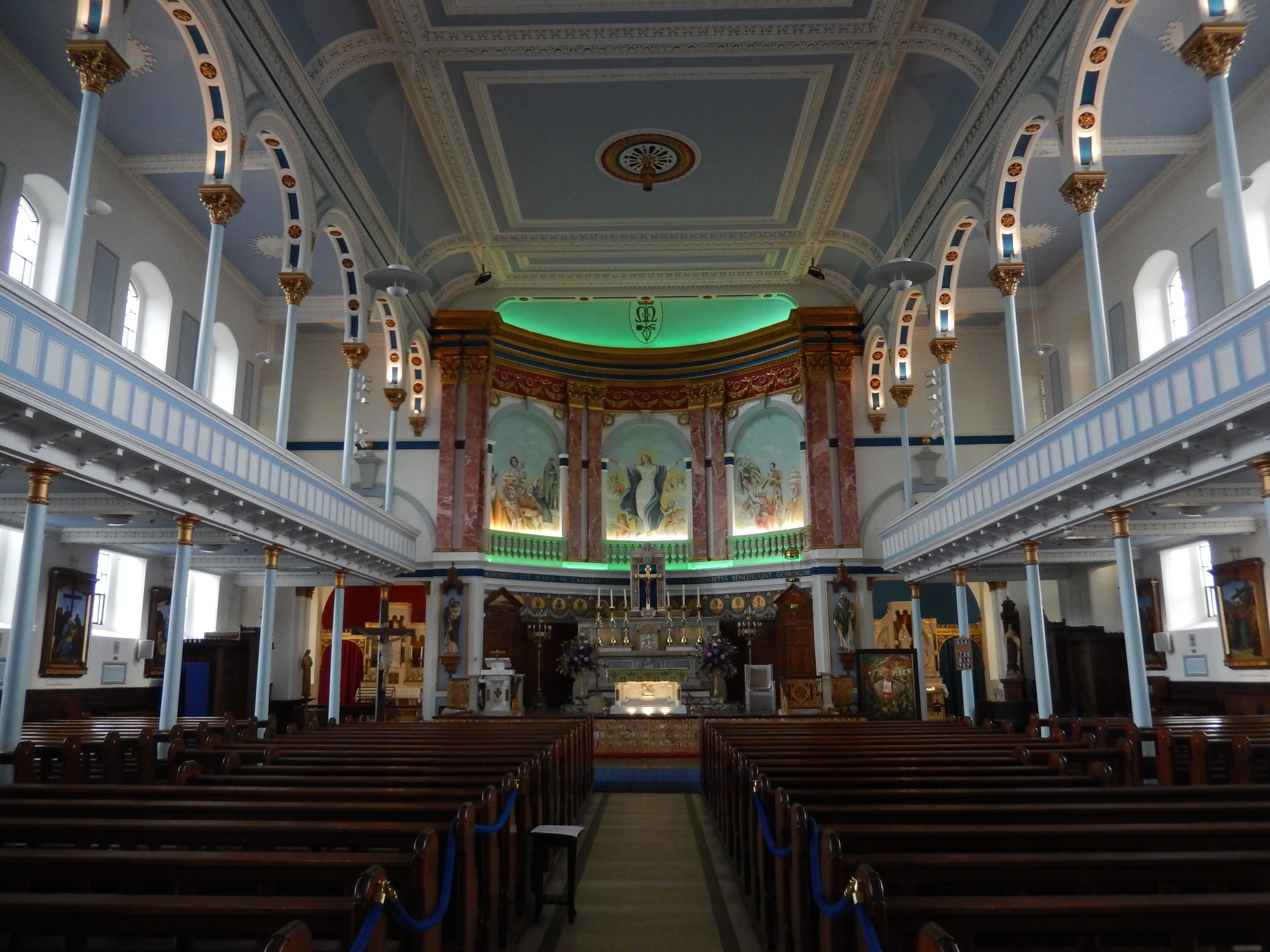 Saint Mary's, Calton. A catholic church on Abercromby Street in the east of Glasgow. Wikidata has entry Q7401798 with data related to this item.